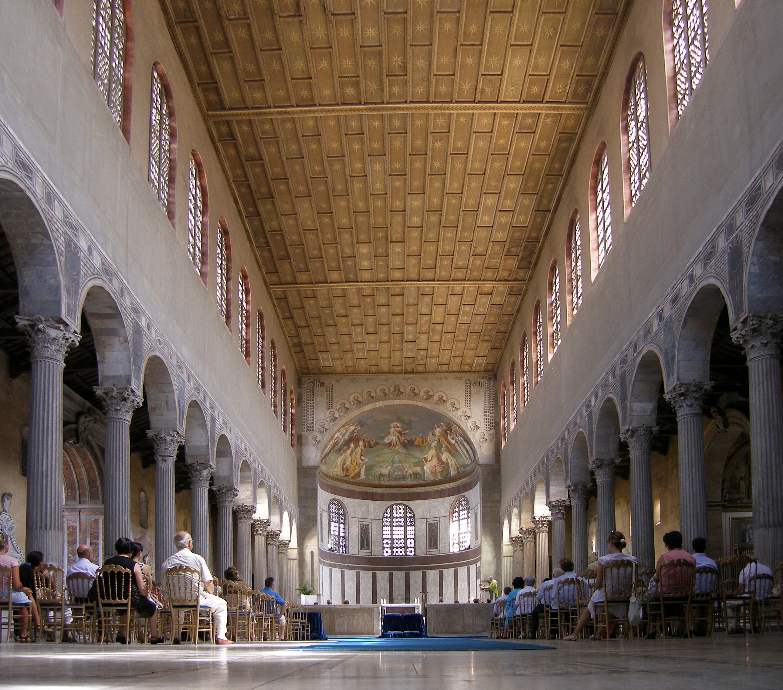 Rome, Santa Sabina